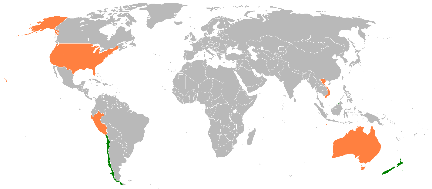 Map showing the member countries of the P-4 in green, and negotiating countries in Orange